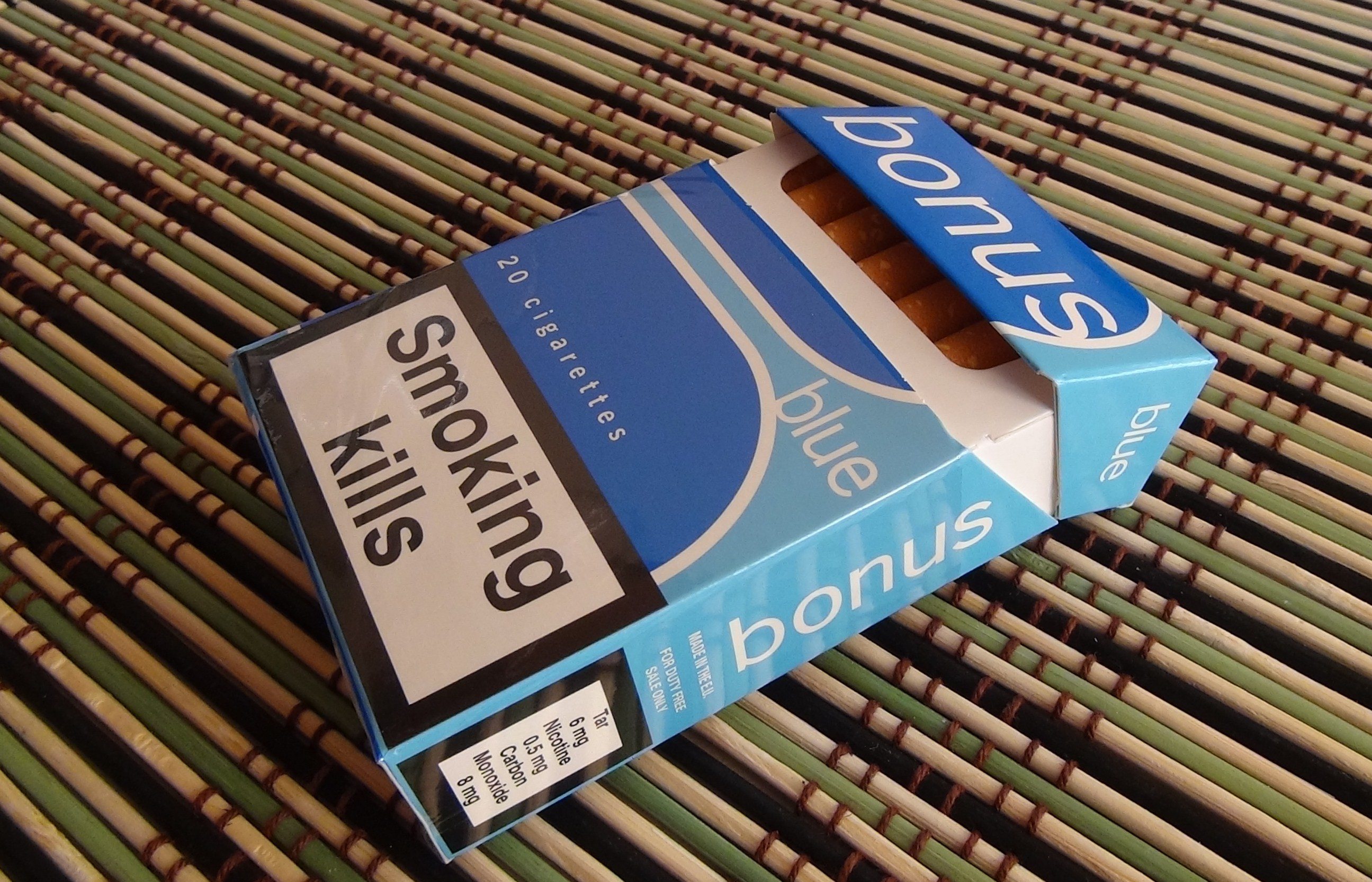 "Bonus blue" cigarette package sold in Finland in 2010-2011 years